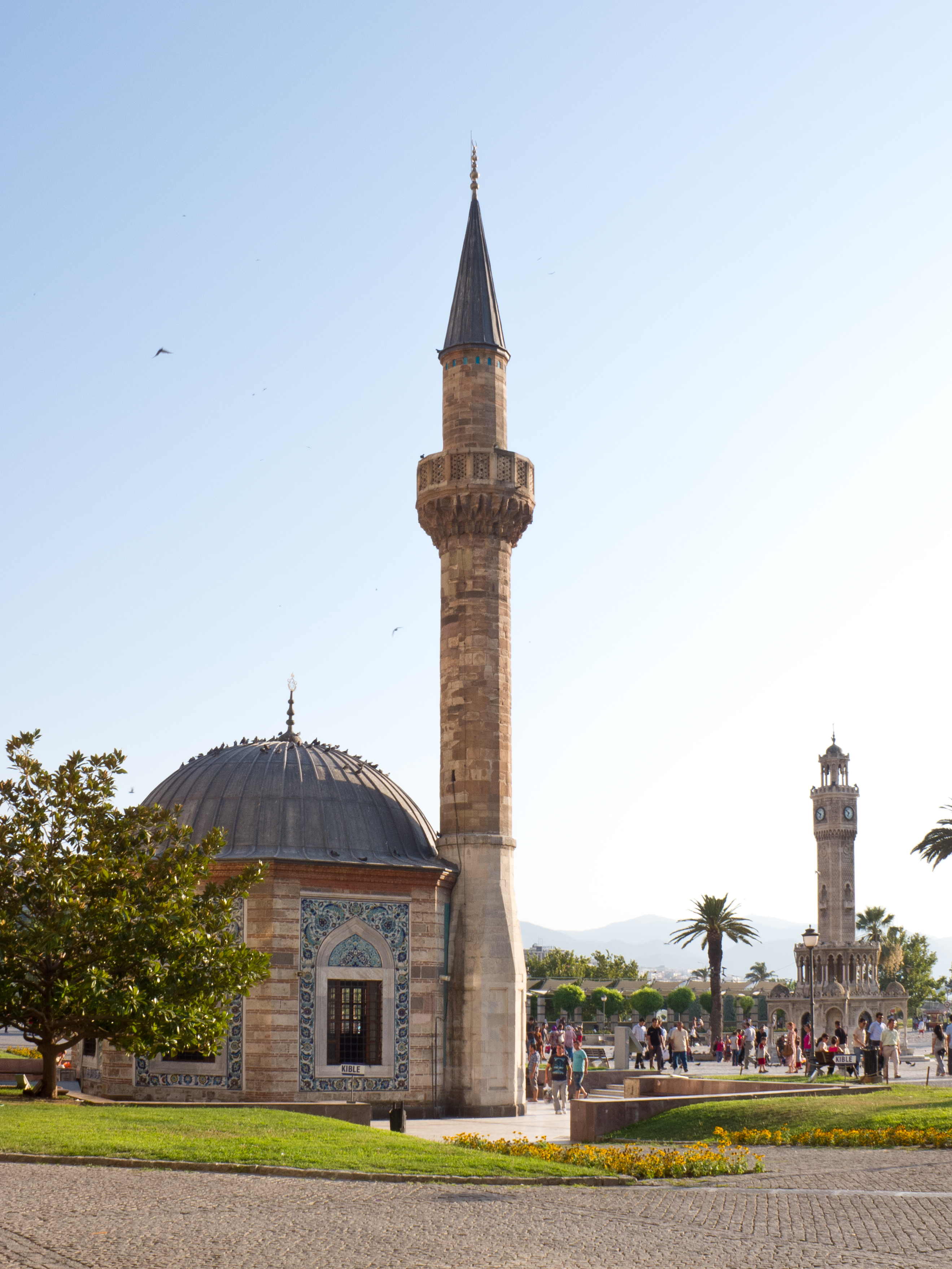 Konak Mosque and clock tower on Konak Square, Izmir, Turkey.